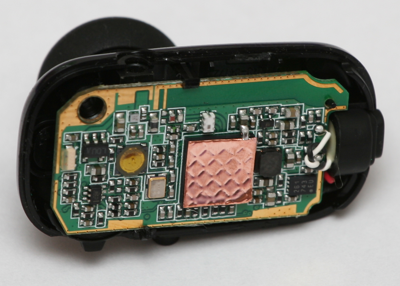 Nokia Bluetooth headset BH-208 disassembled